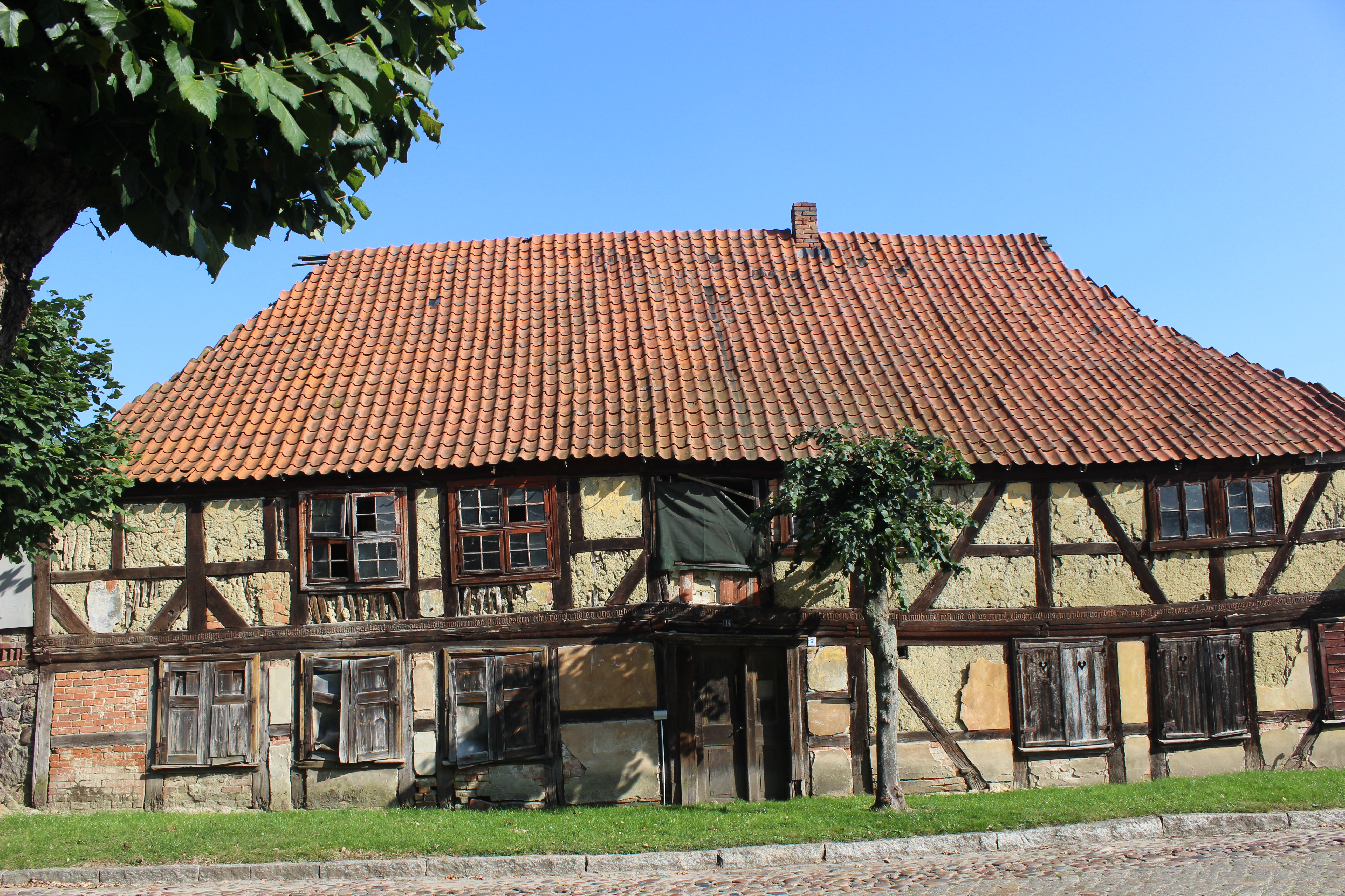 somewhat dilapidated, but apparently meant to stay